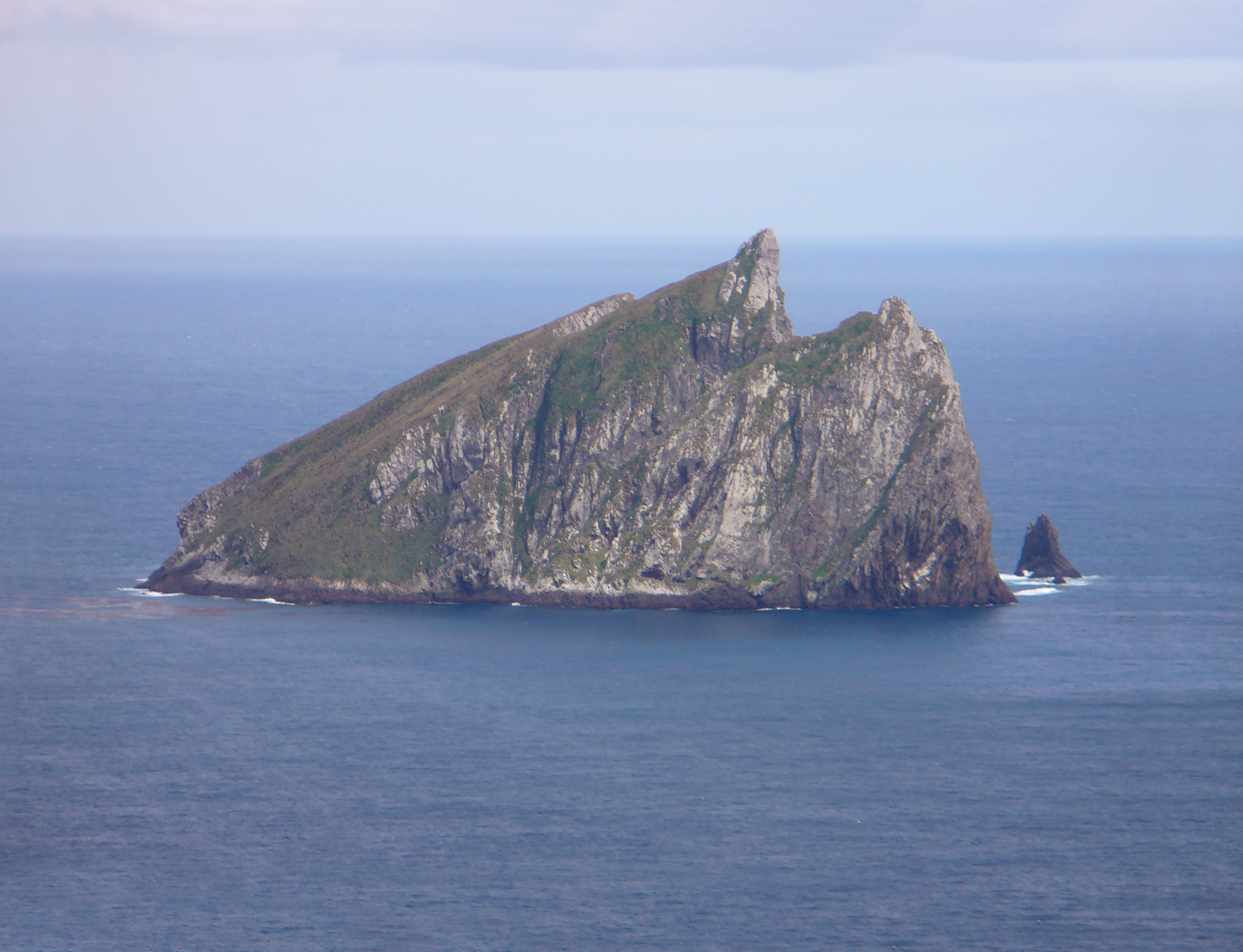 Dent Island (Campbell Islands), one of the sub-antarctic islands of New Zealand. This tiny rocky island is where the endemic Campbell Island Teal survived after rats wiped it out on the main island. The flightless Teal has since been re-introduced to the main island and seems to be doing well.